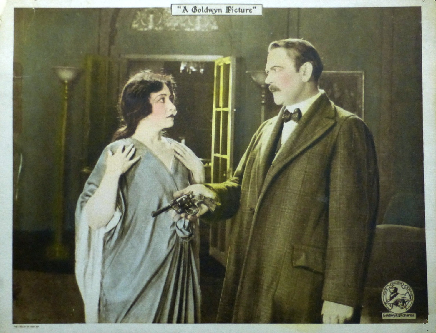 Lobby card for the American mystery film The Woman in Room 13 (1920).